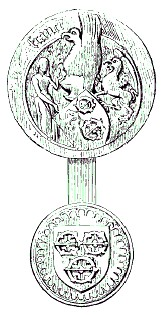 Seal (device) of Admiral Malet de Graville